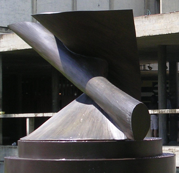 Antoine Pevsner. Central University of Venezuela.